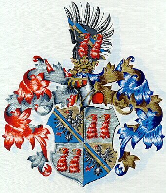 Coat of Arms Jankovsky z Vlasimi after 1615